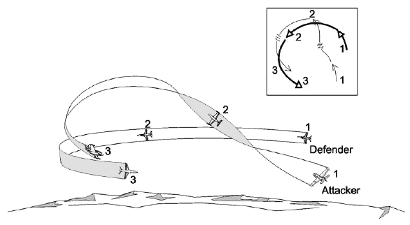 A displacement roll is a type of barrel roll used to decrease turn radius. Source: United States Navy - Naval Air Training Command (NAS Corpus Christi, Texas) Flight training instruction manual. (Rev. 08-06 CNATRAP-821) 2006